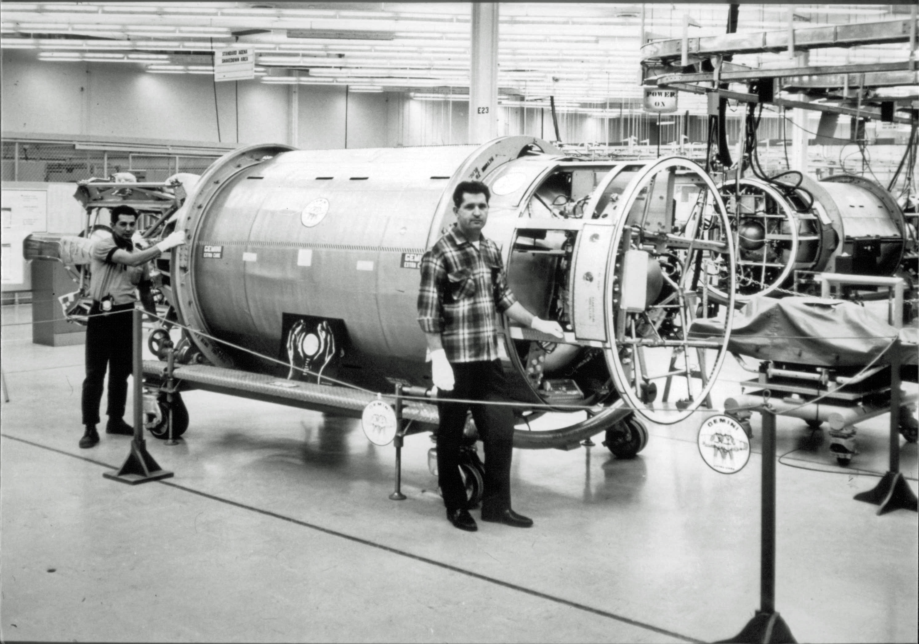 AGENA spacecraft production line at Lockheed